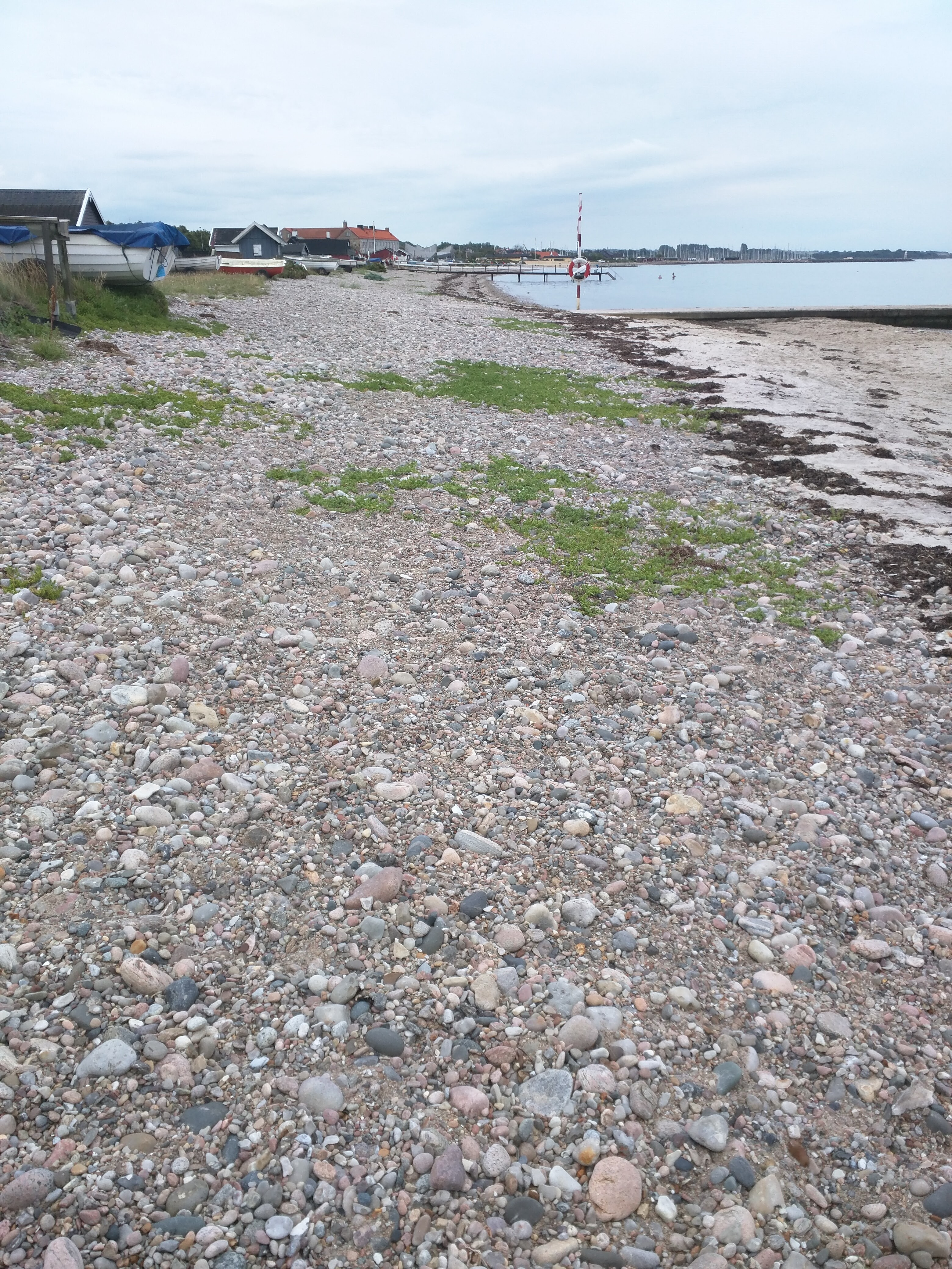 The beach at Råå, Scania.